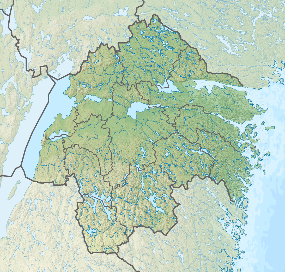 Location map of Östergötland in Sweden Equirectangular projection, N/S stretching 190 %. Geographic limits of the map: N: 59.10° N S: 57.60° N W: 14.20° E E: 17.20° E